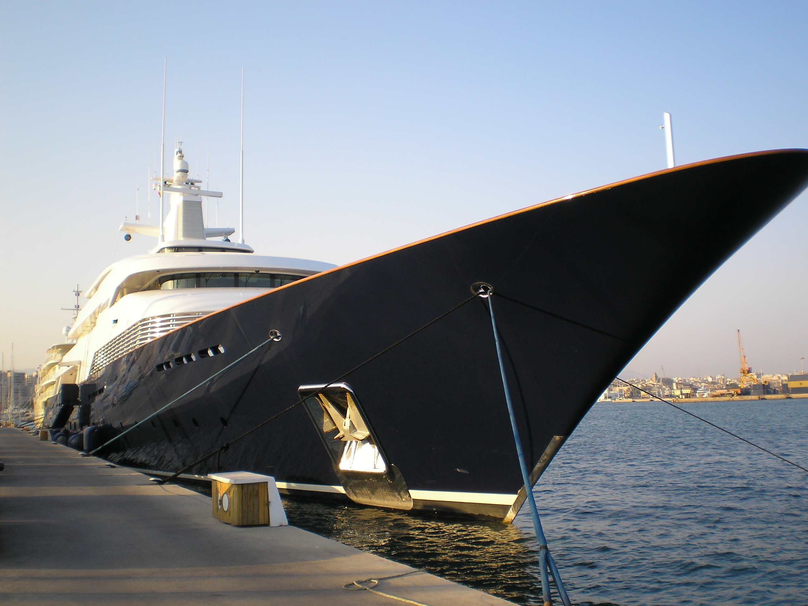 The "Limitless" superyacht in Palma de Mallorca, view from near the front